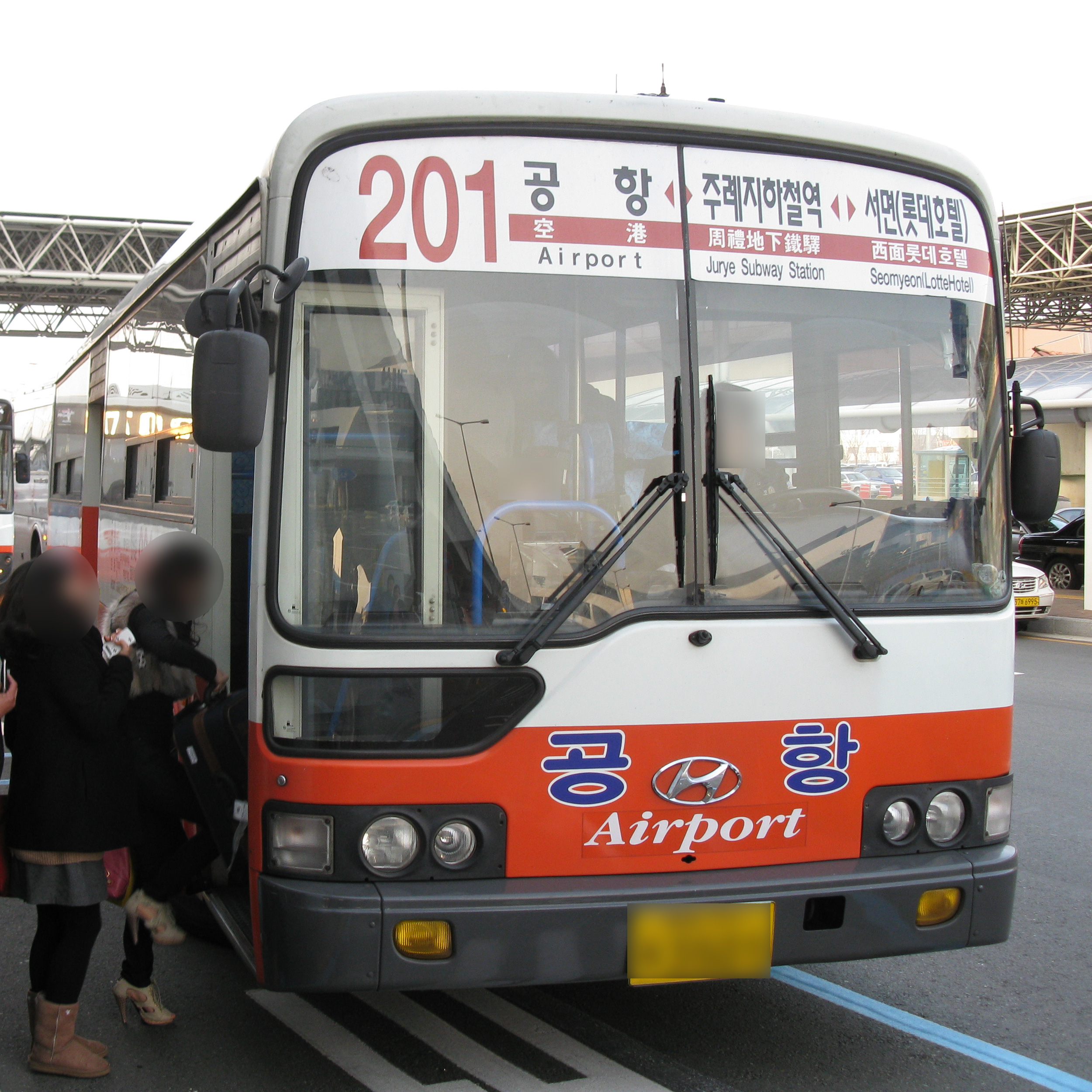 Busan city express bus 201 (Taken at Gimhae International Airport)